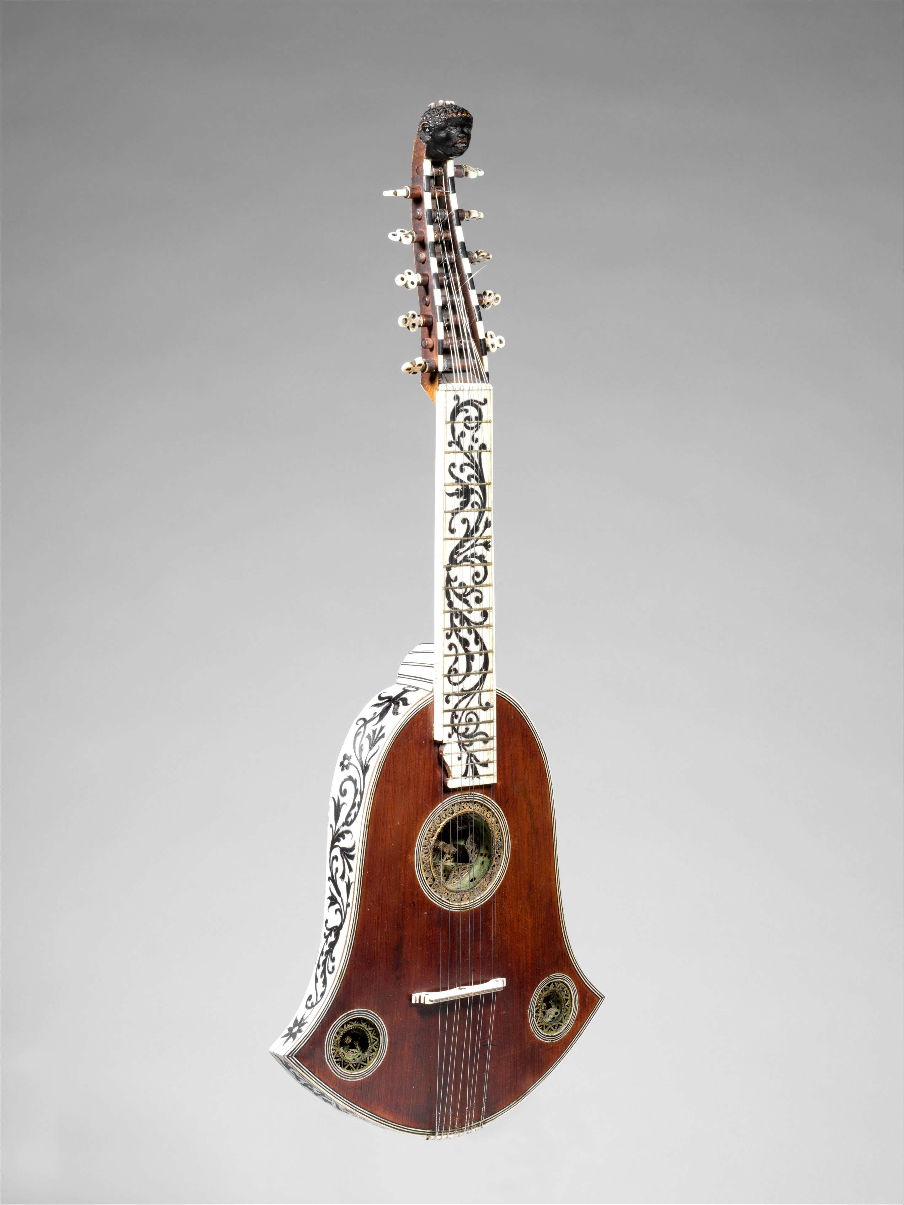 German; Cittern; Chordophone-Lute-plucked